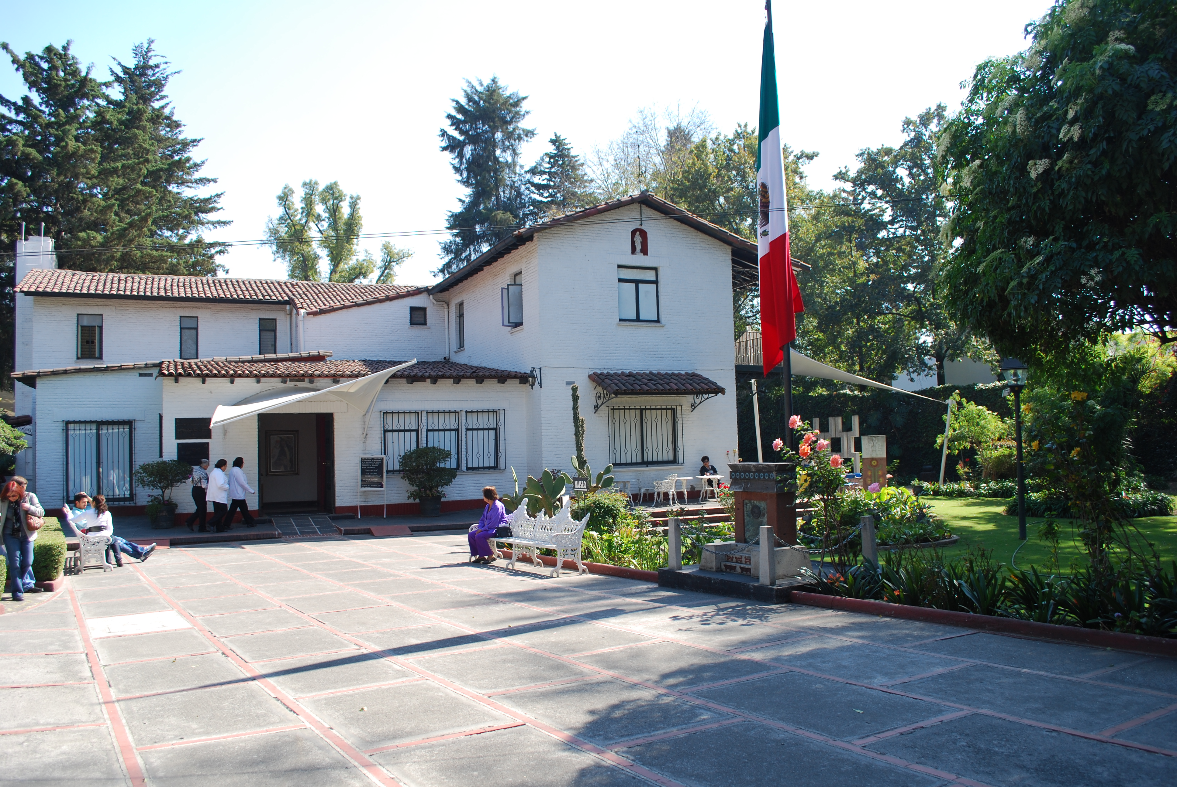 View of house and part of a garden of the Museo Nacional de Acuarela in Coyoacan, Mexico City